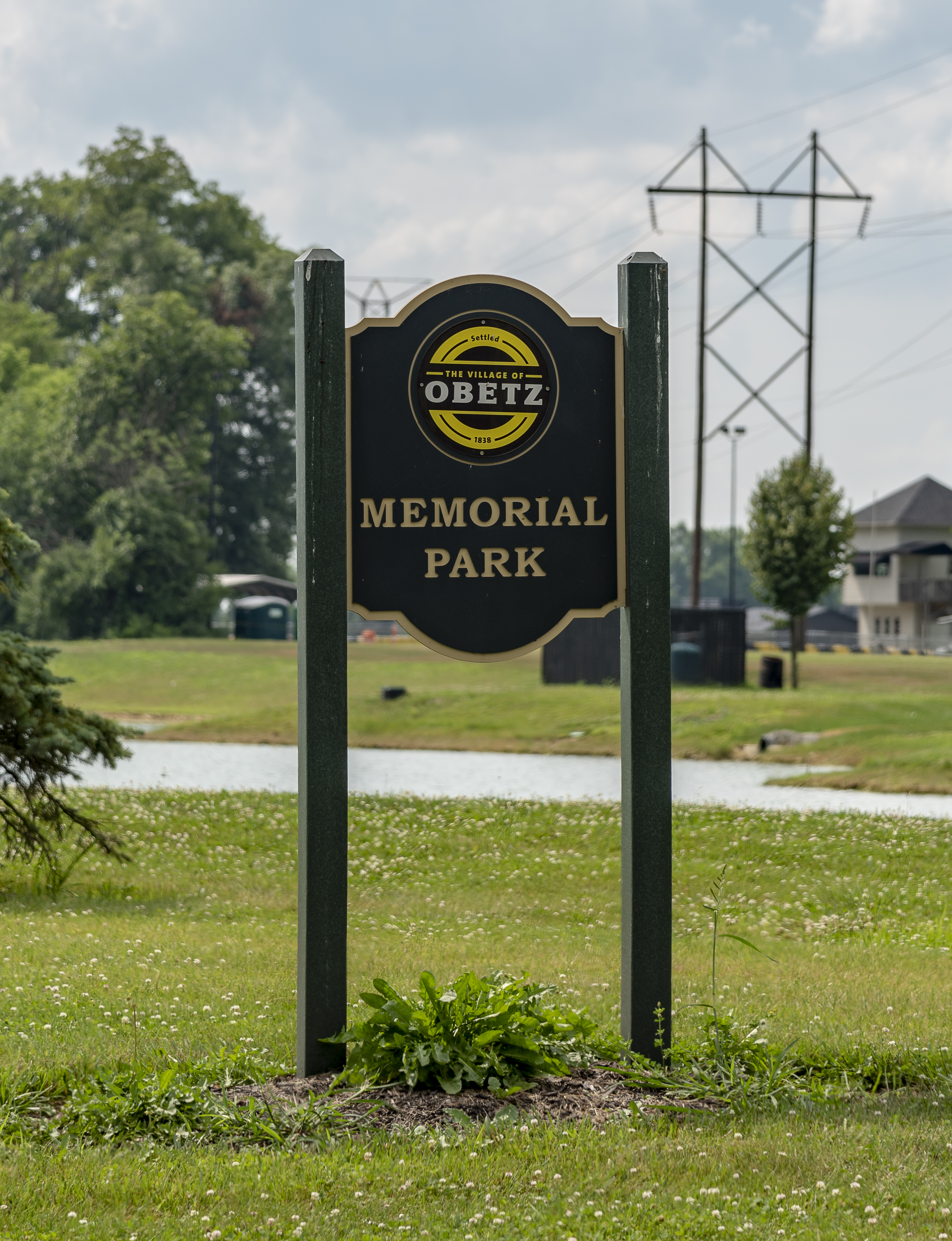 The sign outside Memorial Park in Obetz, Ohio. Memorial park is the largest park in Obetz at 80 acres. The Obetz Athletic Club is located in Memorial Park.